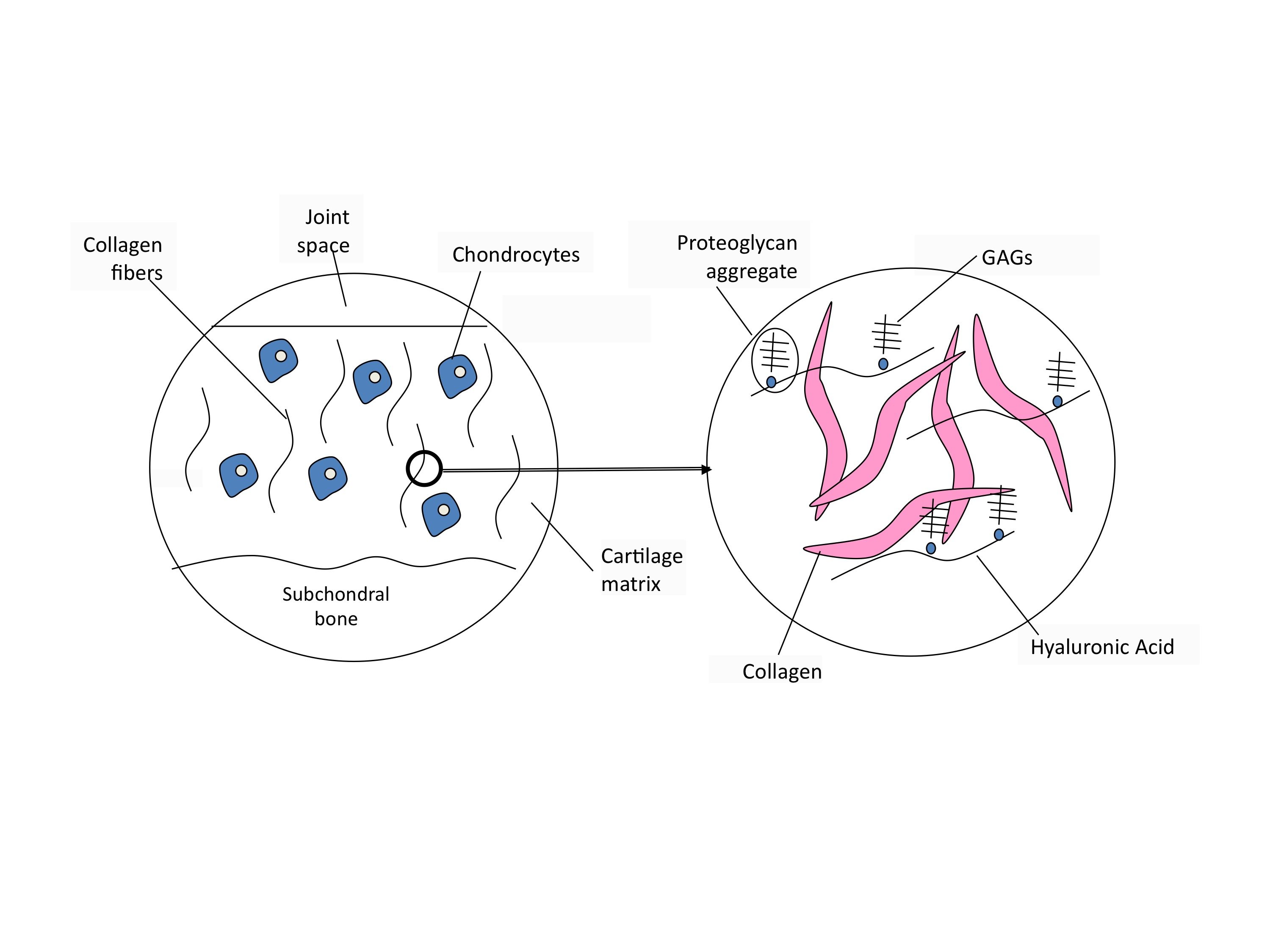 GAGs, proteoglycan, glycoproteins, cartilage matrix